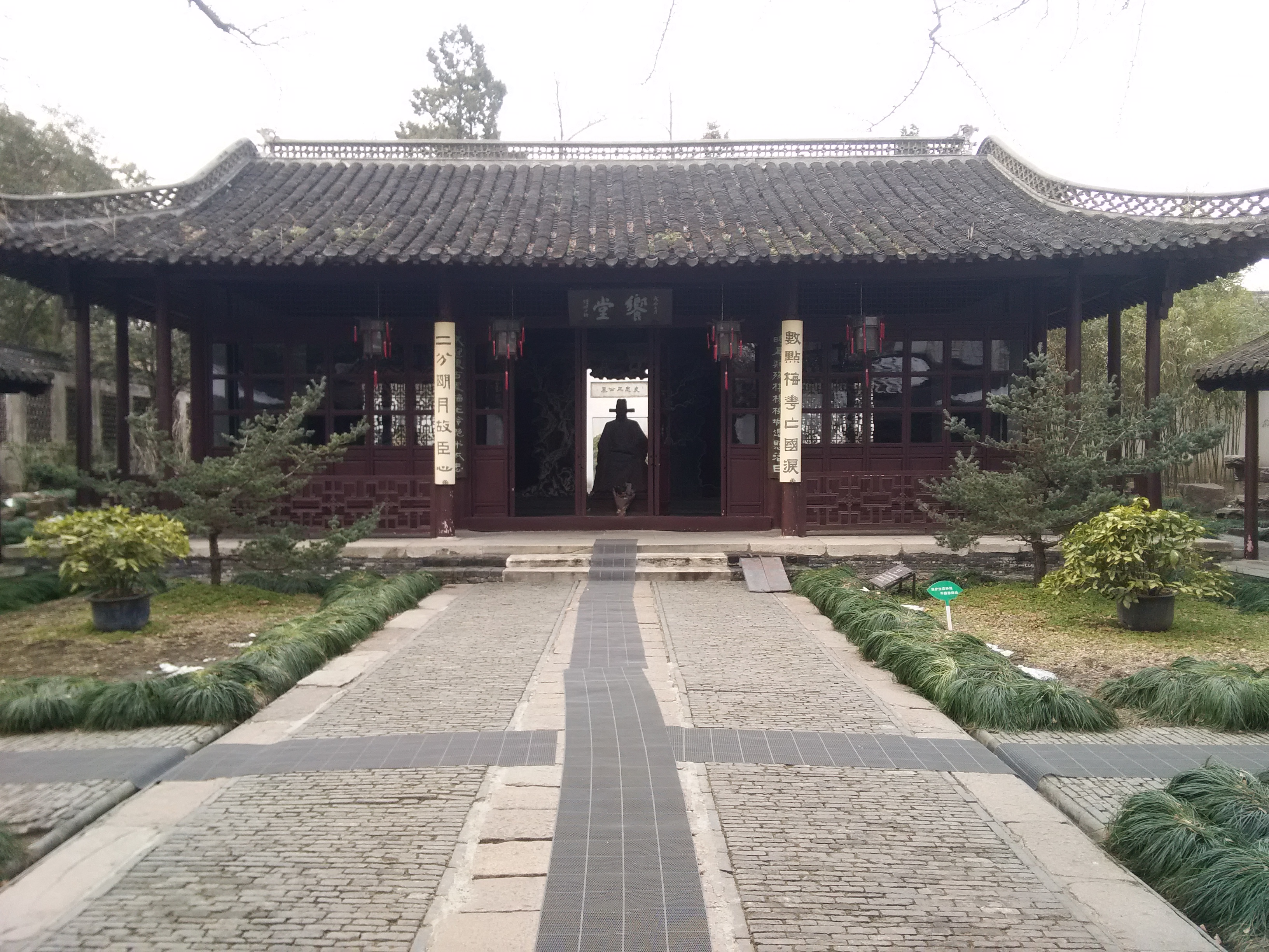 Shi Kefa Memorial Hall